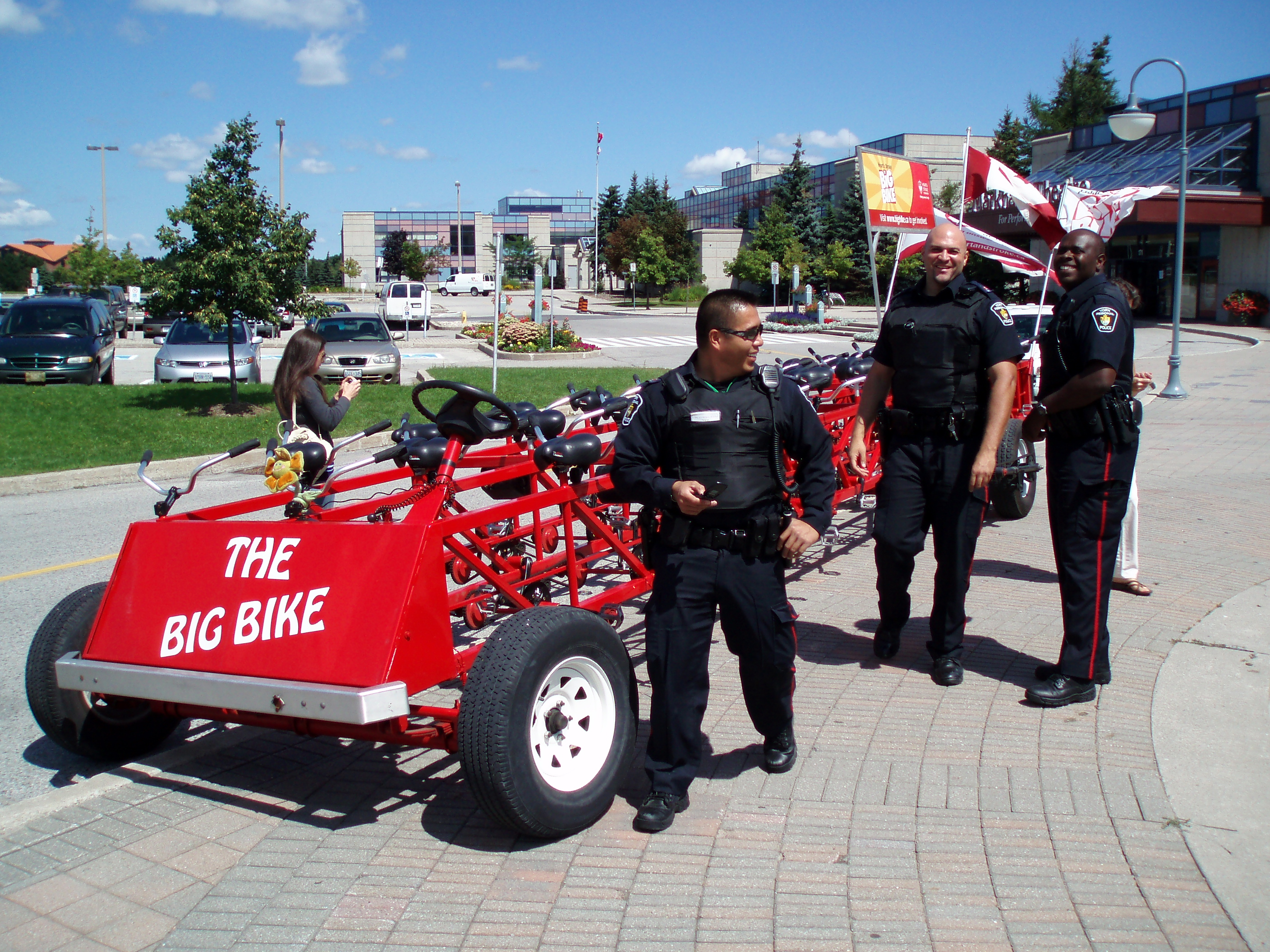 York Regional Police & Big Bike at Heart and Stroke Foundation's fundraising event.